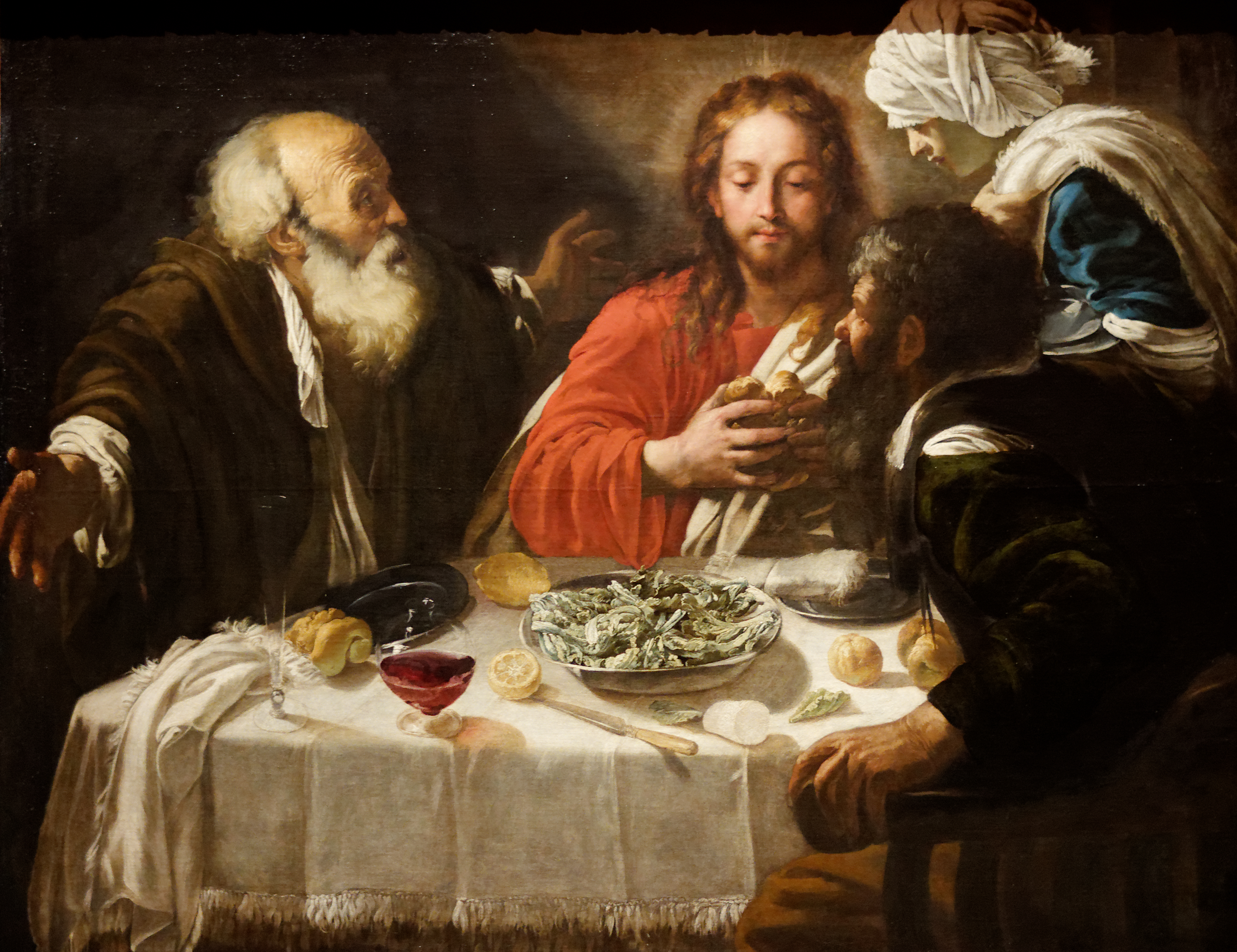 Christ and the Disciples in Emmaus Follower of Caravagio. Kunsthistorisches Museum, Vienna Inv Nr GG235. This picture is a mirror image of a composition by Caravaggio (London National Gallery) dating from around 1600. The artist, possibly Genoan, was influenced by Dutch successors to Caravaggion (mainly Hendrick Terbrugghen)